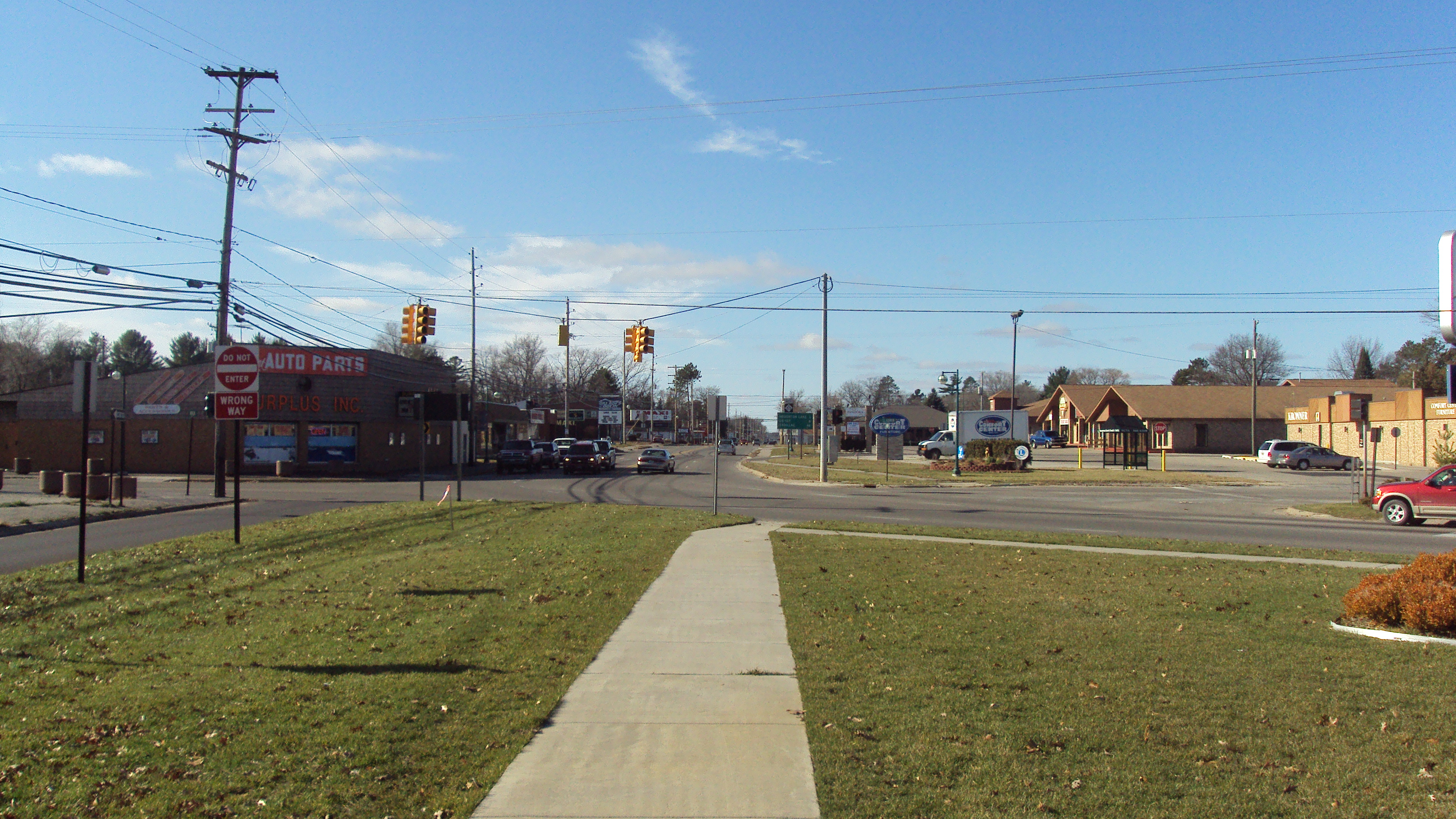 Prudenville along Houghton Lake Drive (M-55)